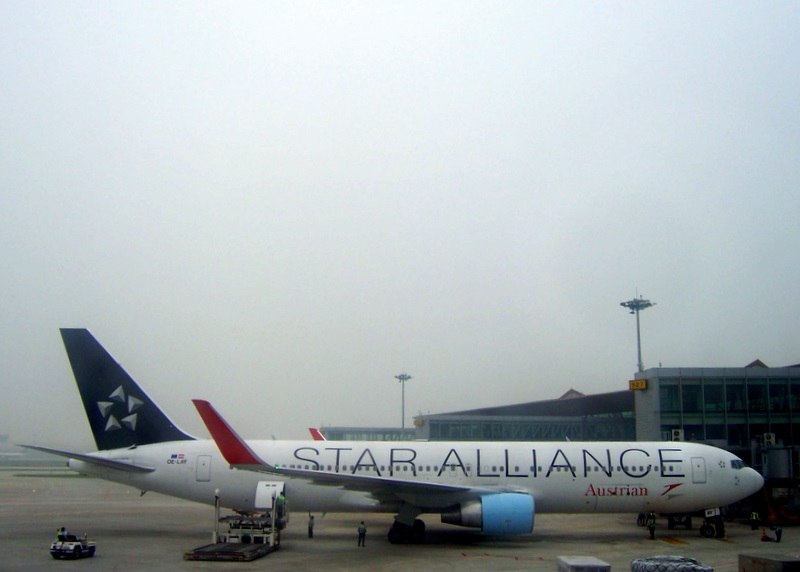 Austrian Airlines Boeing 767-3Z9ER (OE-LAY) Japan at Beijing Capital Int'l Airport.